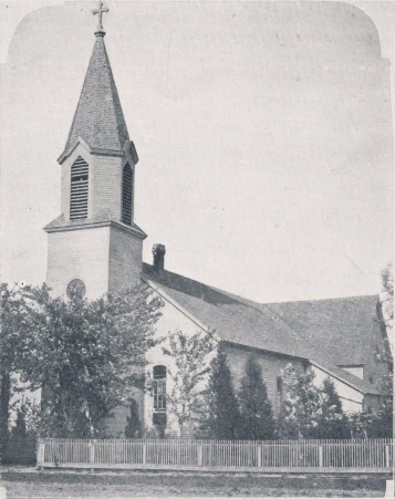 Radom Ill